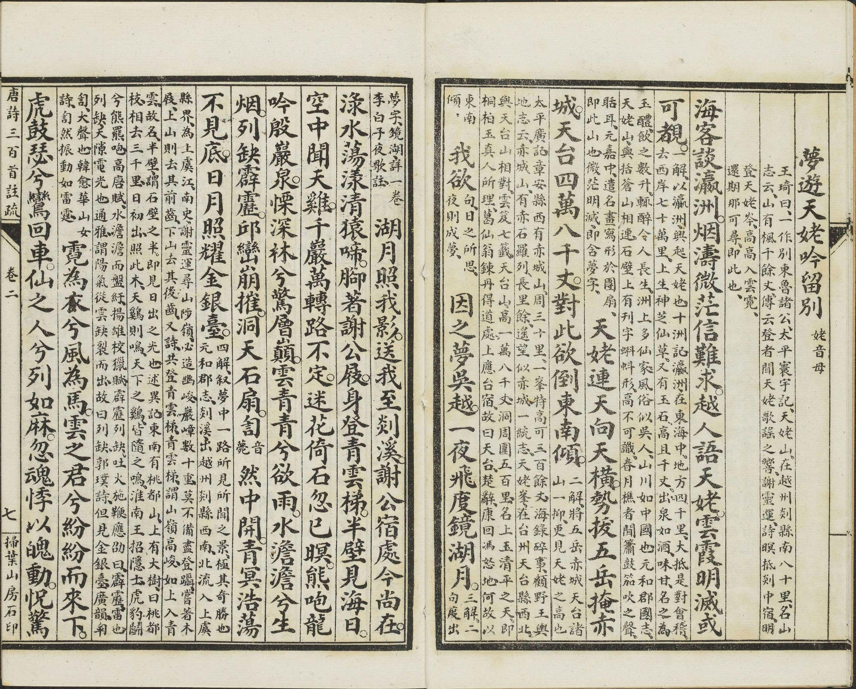 Three Hundred Tang Poems